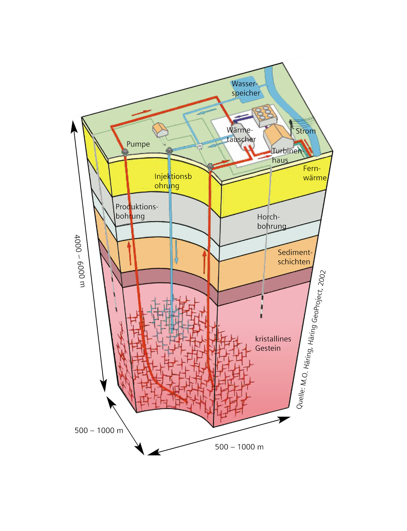 The principles of the using of geothermal power